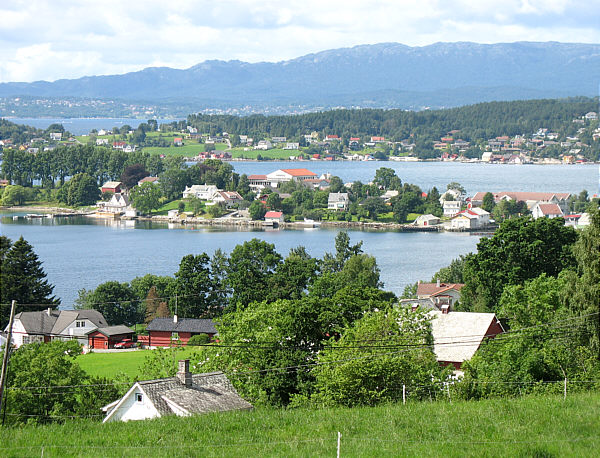 Island Halsnoy, with Hardangerfjorden in the background